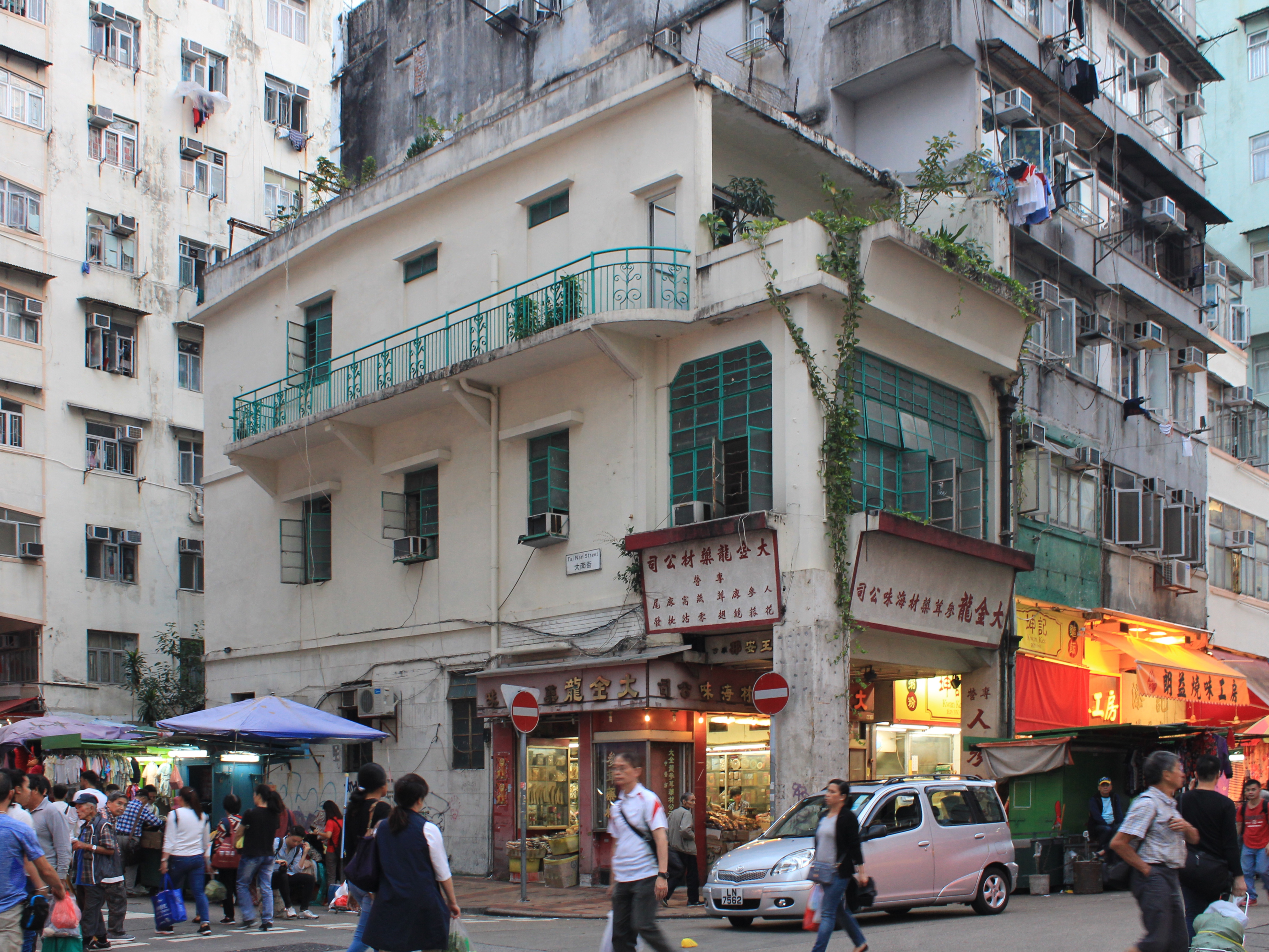 58 Pei Ho Street is a pre-war tong lau in Hong Kong, which is now listed as a Grade II Historic Building.